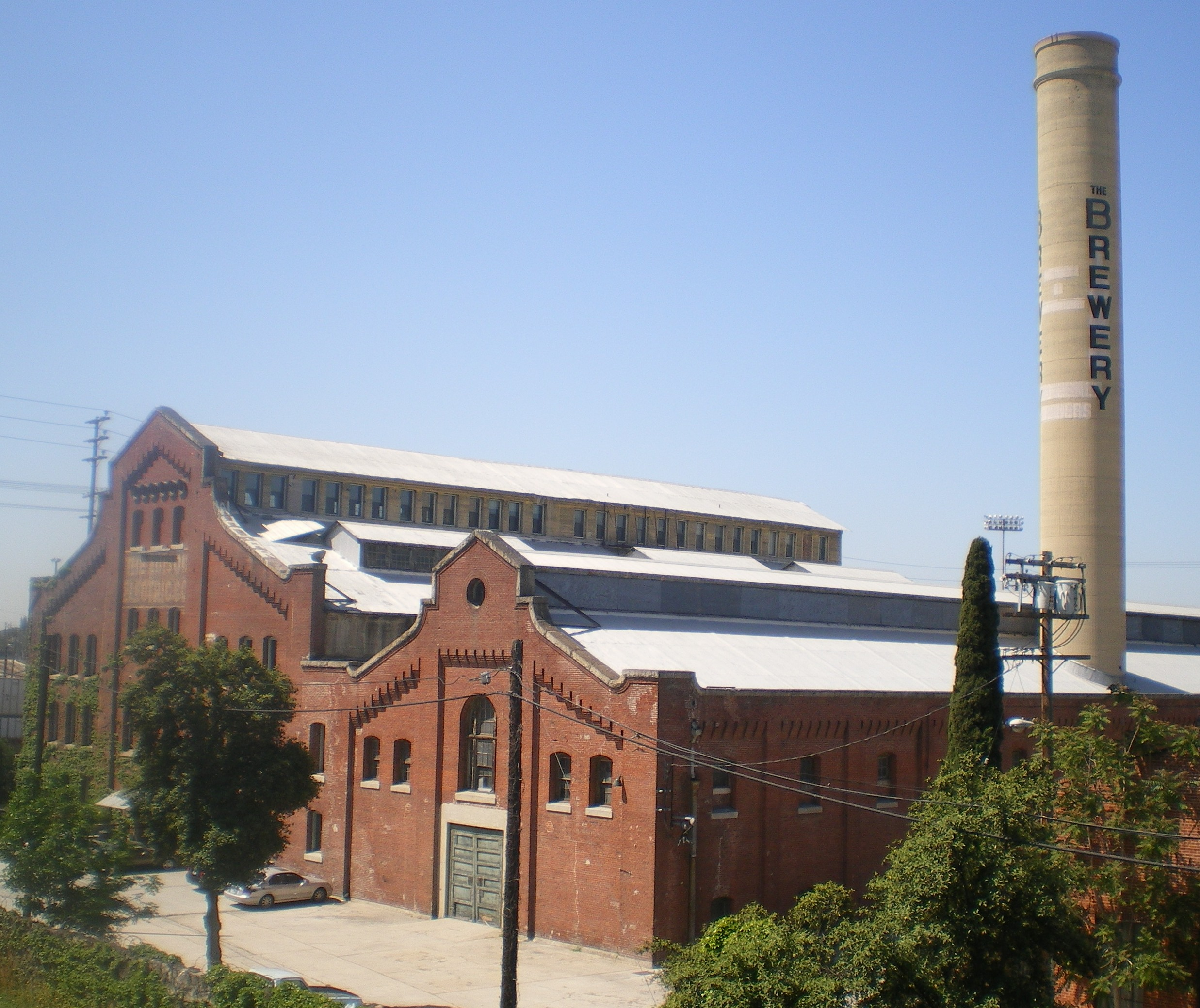 Edison Steam Power Plant / Brewery Arts Complex (1904) — 2100 N. Main Street, Lincoln Heights, Los Angeles, California